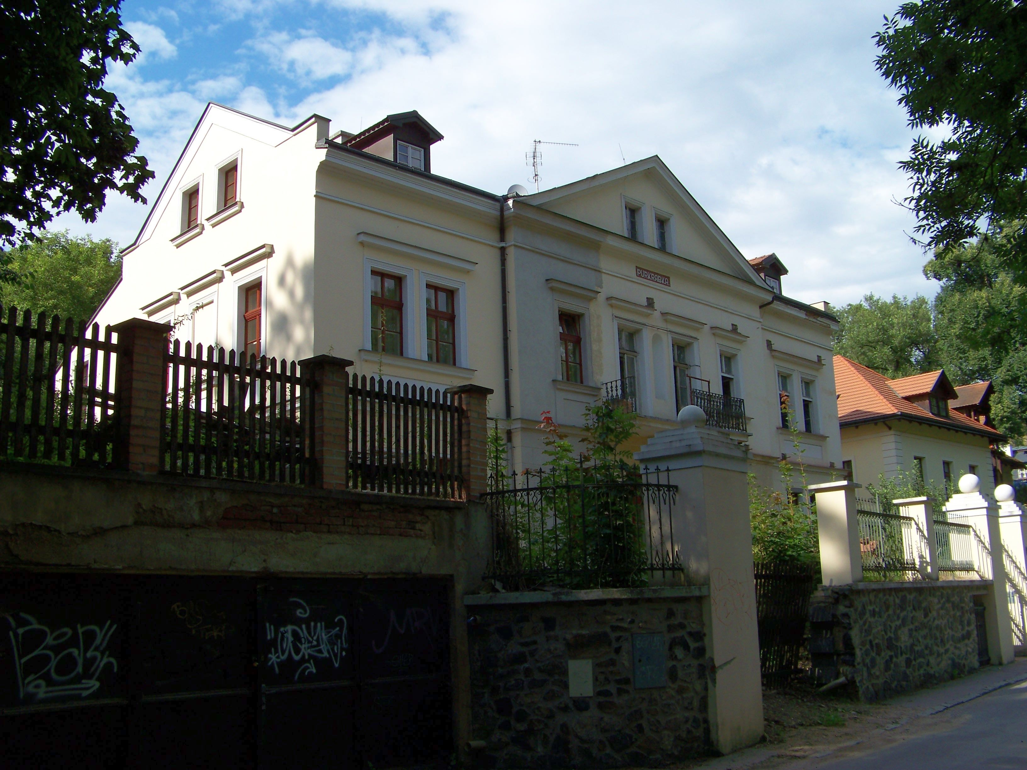 Prague-Dejvice, the Czech Republic. V Šáreckém údolí 139/34, Purkrábka.